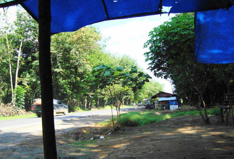 A country road at Aek Nabara, Bilah Hulu District, Labuhanbatu Regency, North Sumatra Province, Indonesia.